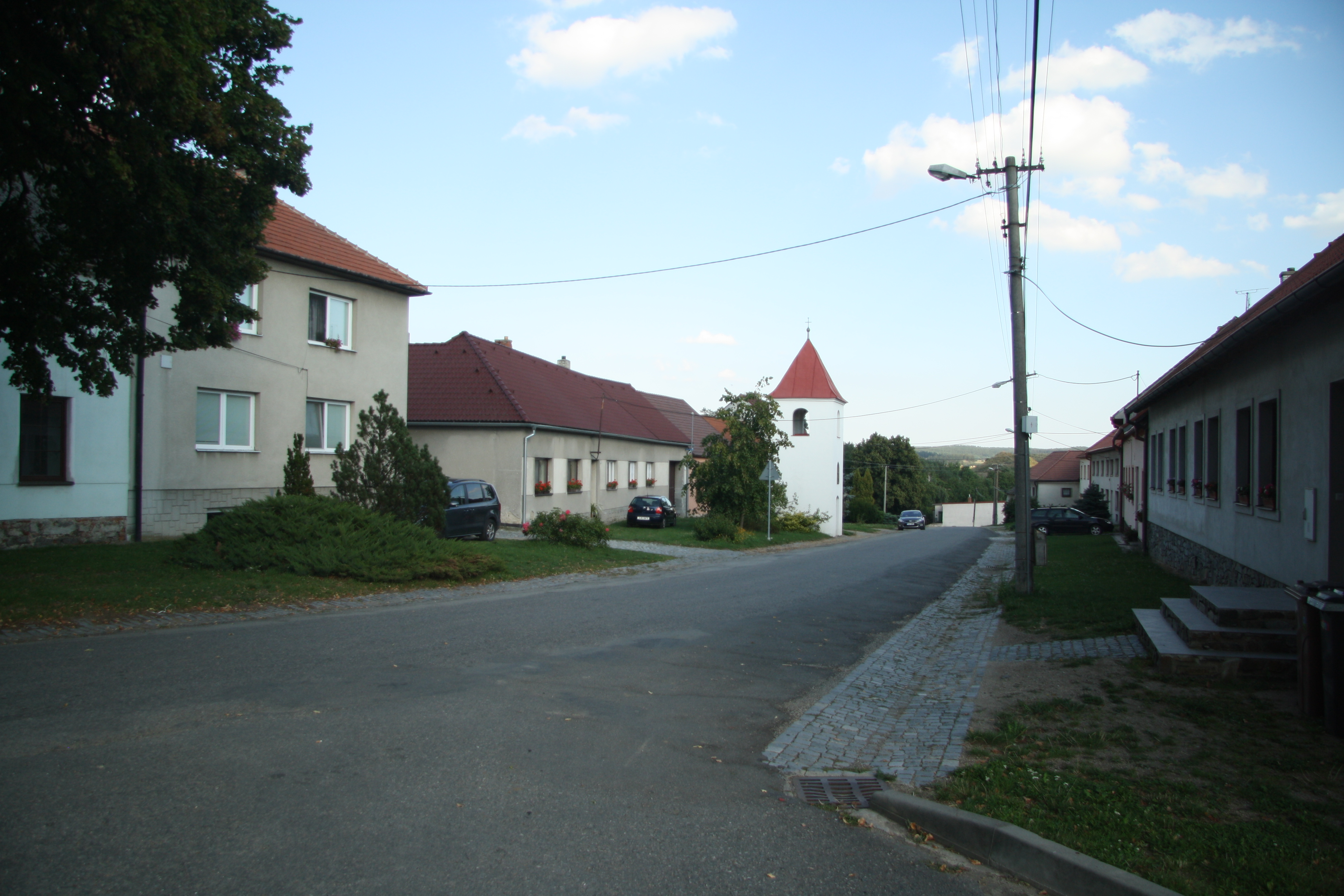 Center of Březka, Velká Bíteš, Žďár nad Sázavou District.